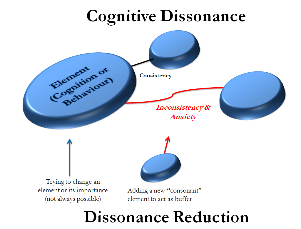 A diagram of cognitive dissonance theory. Dissonance reduction can be accomplished in various ways, broadly including the addition of more, consonant elements, or else changing the existing elements.